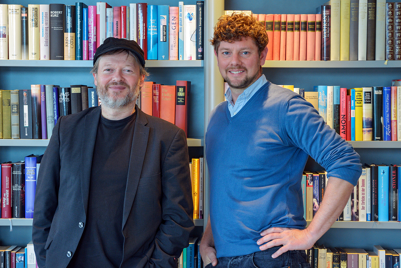 Lesung "Isch geh Bundestag" Philipp Möller Oberwesel Giordano-Bruno-Stiftung